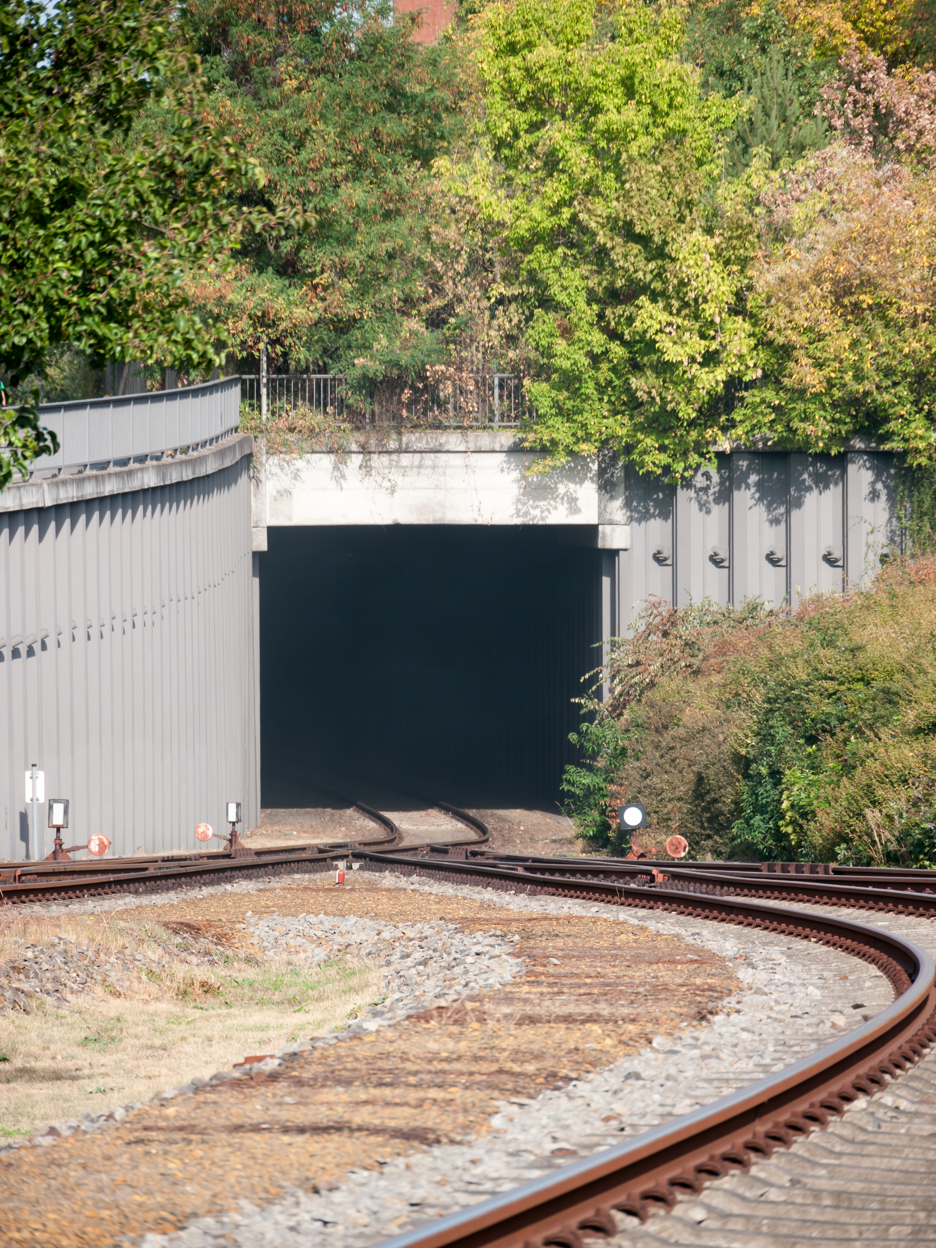 Innotrans 2018